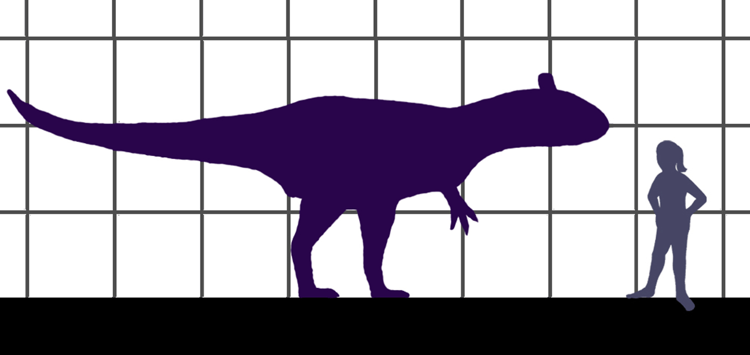 Size comparison between the theropod dinosaur Cryolophosaurus ellioti and a human.